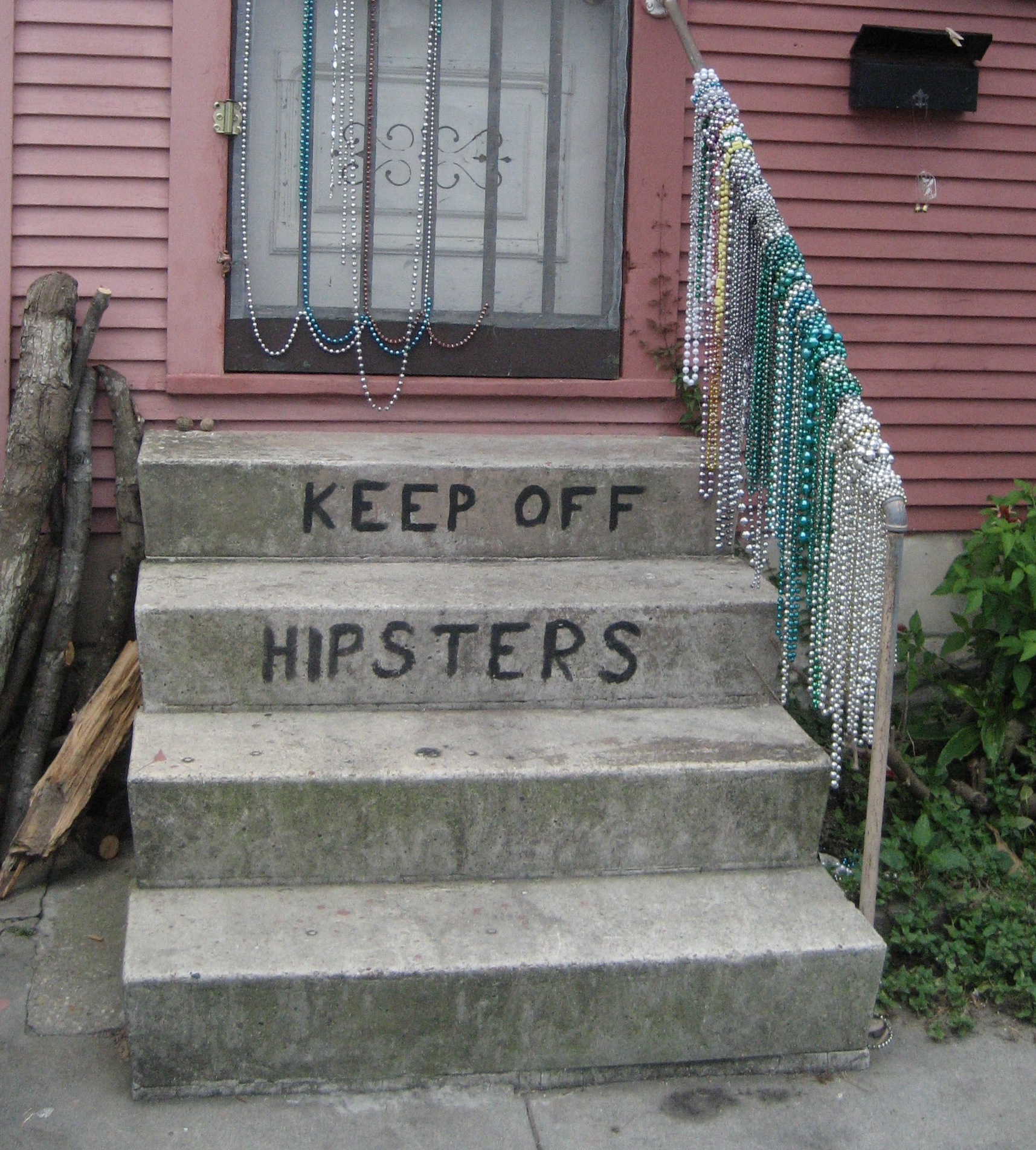 Bywater section of New Orleans: Front steps to home has "KEEP OFF HIPSTERS" painted on. Home is across the street from a bar where people who might be labeled "Hipsters" congregate.